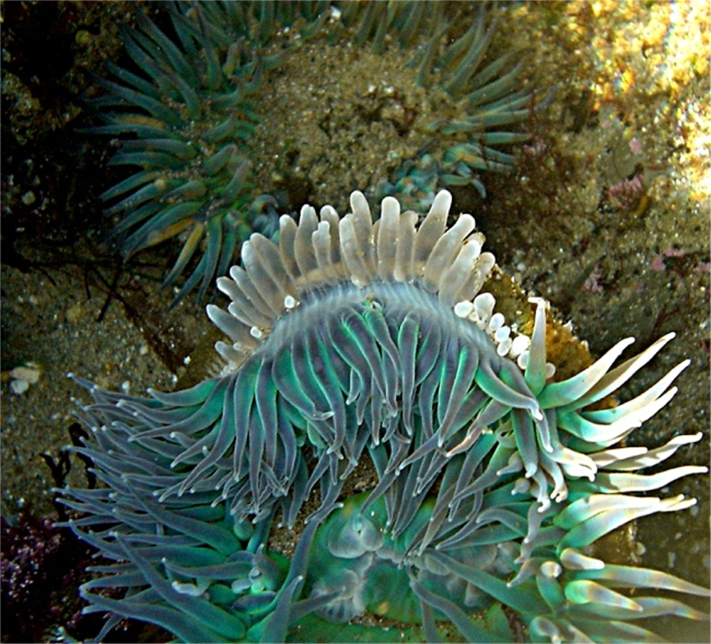 Sea Anemones are engaged in a war for territory. The white tentacles are fighting tentacles. After war ends one of them should move. Sea Anemones look as plants, but they are animals and they are predators.